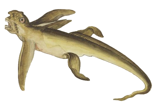 Drawing of a "Simia marina", made by german doctor Johann Kentmann, used in Conrad Gessner's Historiae animalium